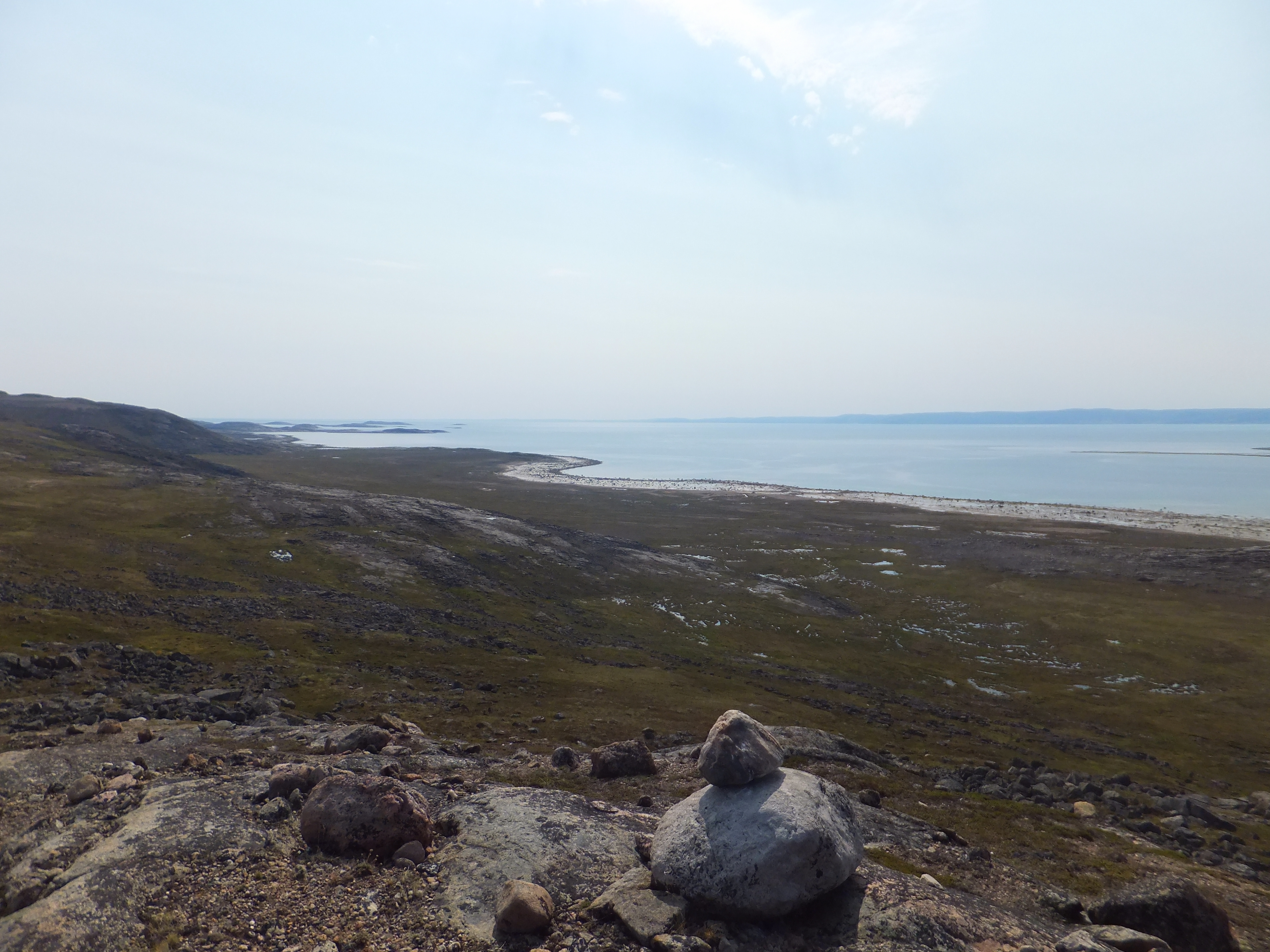 North shore of Wager Bay, about midway. Looking east. Hills on south shore visible in distance.